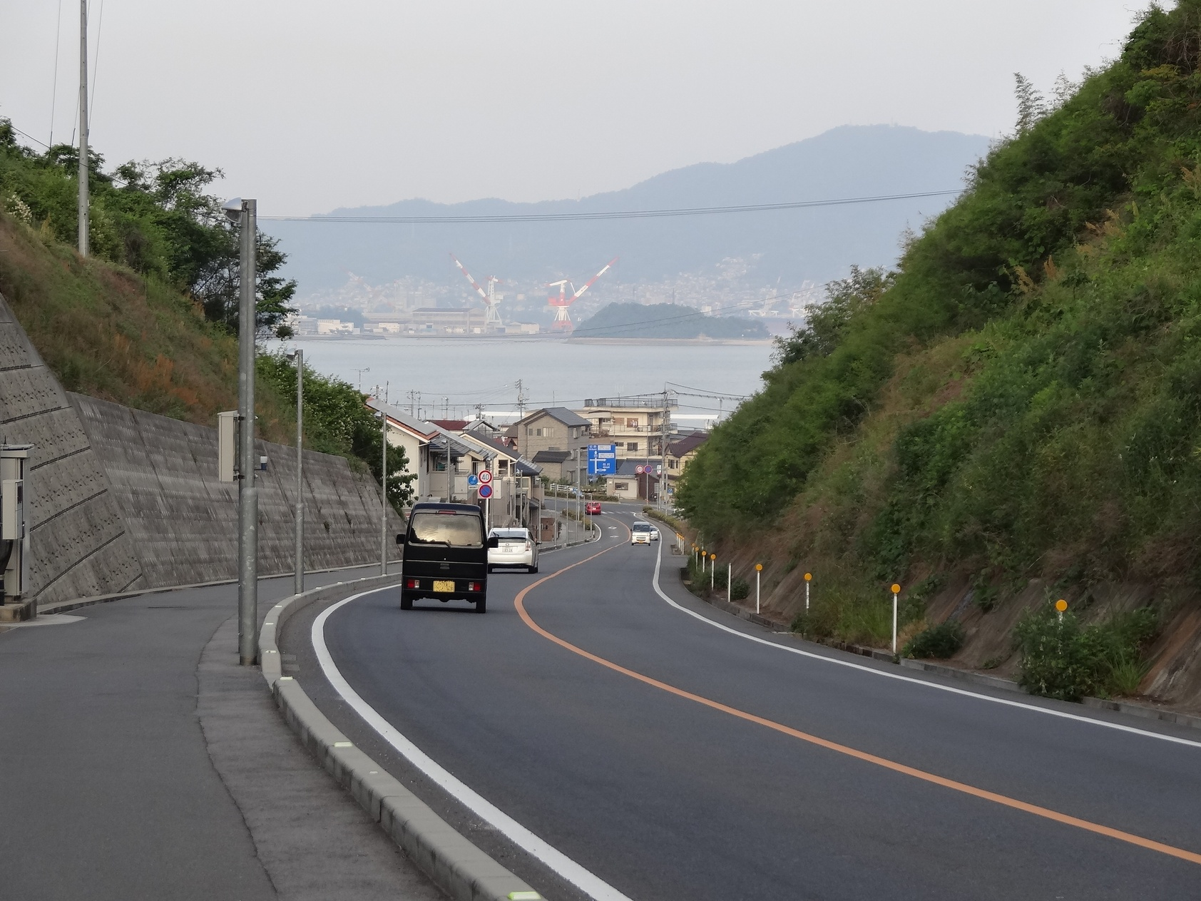 "National Route 487" in Koyo, Etajima City, Hiroshima Prefecture, Japan)